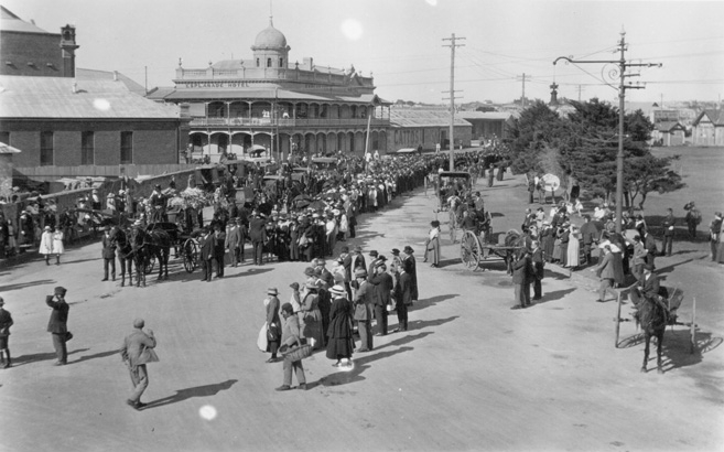 Thomas Clarke Edwards had the largest funeral witnessed after an over-enthusiastic policeman hit him whilst he was at a protest that turned into the 1919 Fremantle Wharf riot.